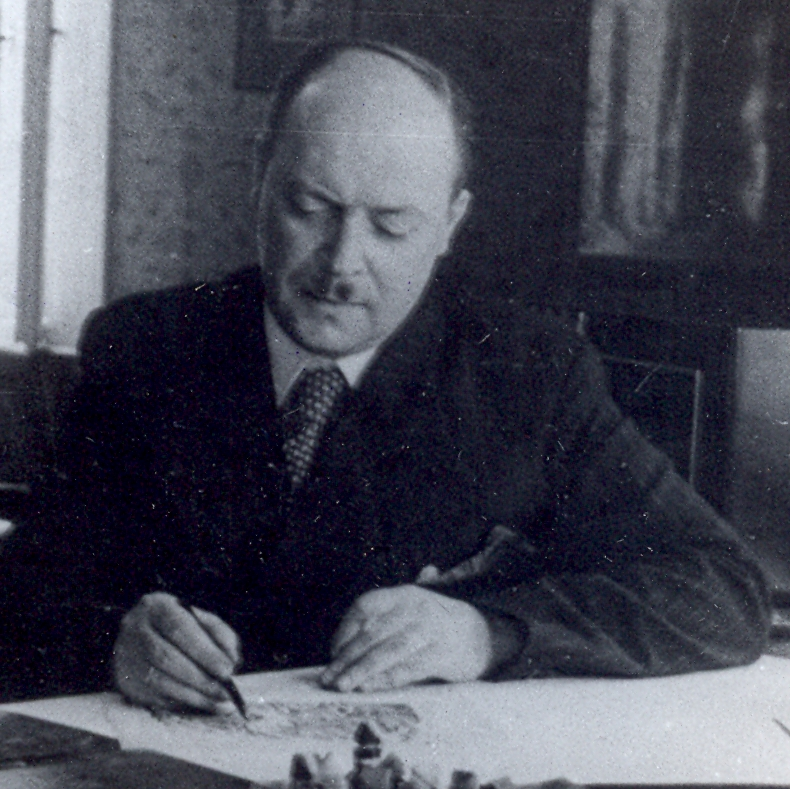 Artist Vadim Lazarkevich in his studio